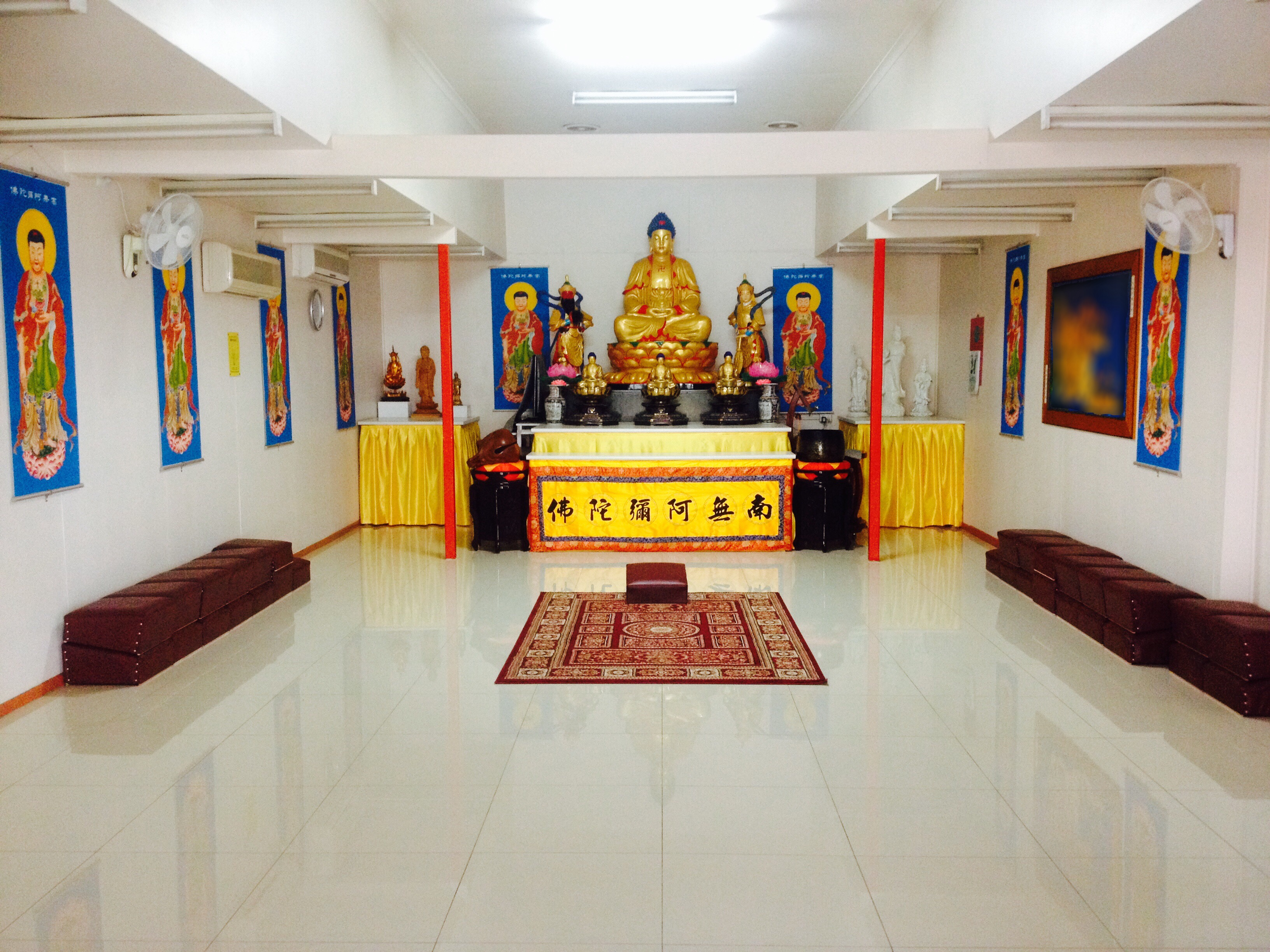 The Temple of the Holy Triad at 32 Higgs Street, Albion, Brisbane, Queensland